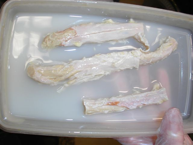 A spinal cord from the Miami Project to cure paralysis. Photograph taken by Simon Kågedal (User:Skagedal), january 2006, released into public domain